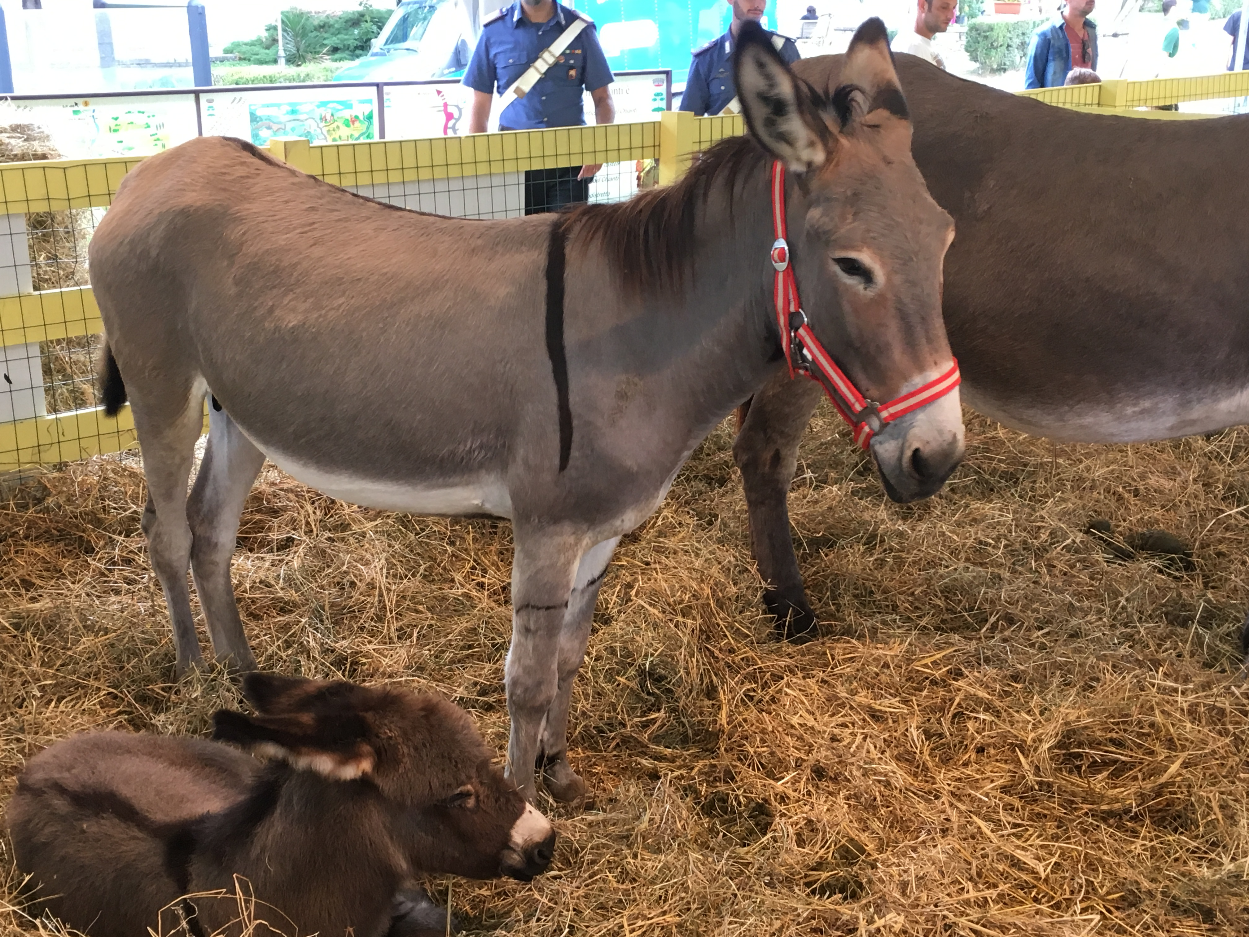 Amiatina jenny and foal at the Rural Festival, Gaiole in Chianti, Tuscany, Italy, 17–18 September 2016